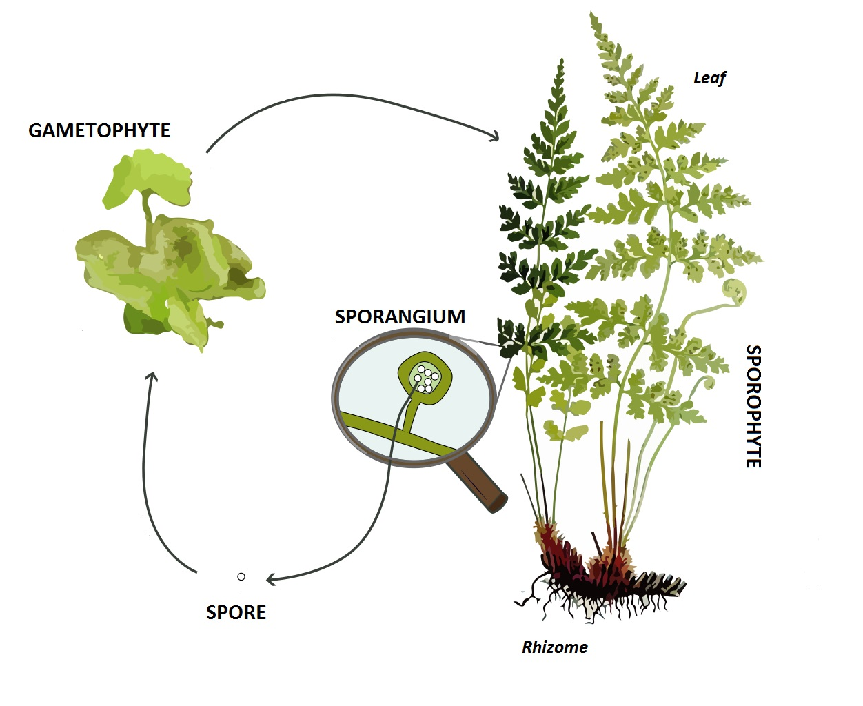 Life cycle of pteridophyte (translated from Spanish version)